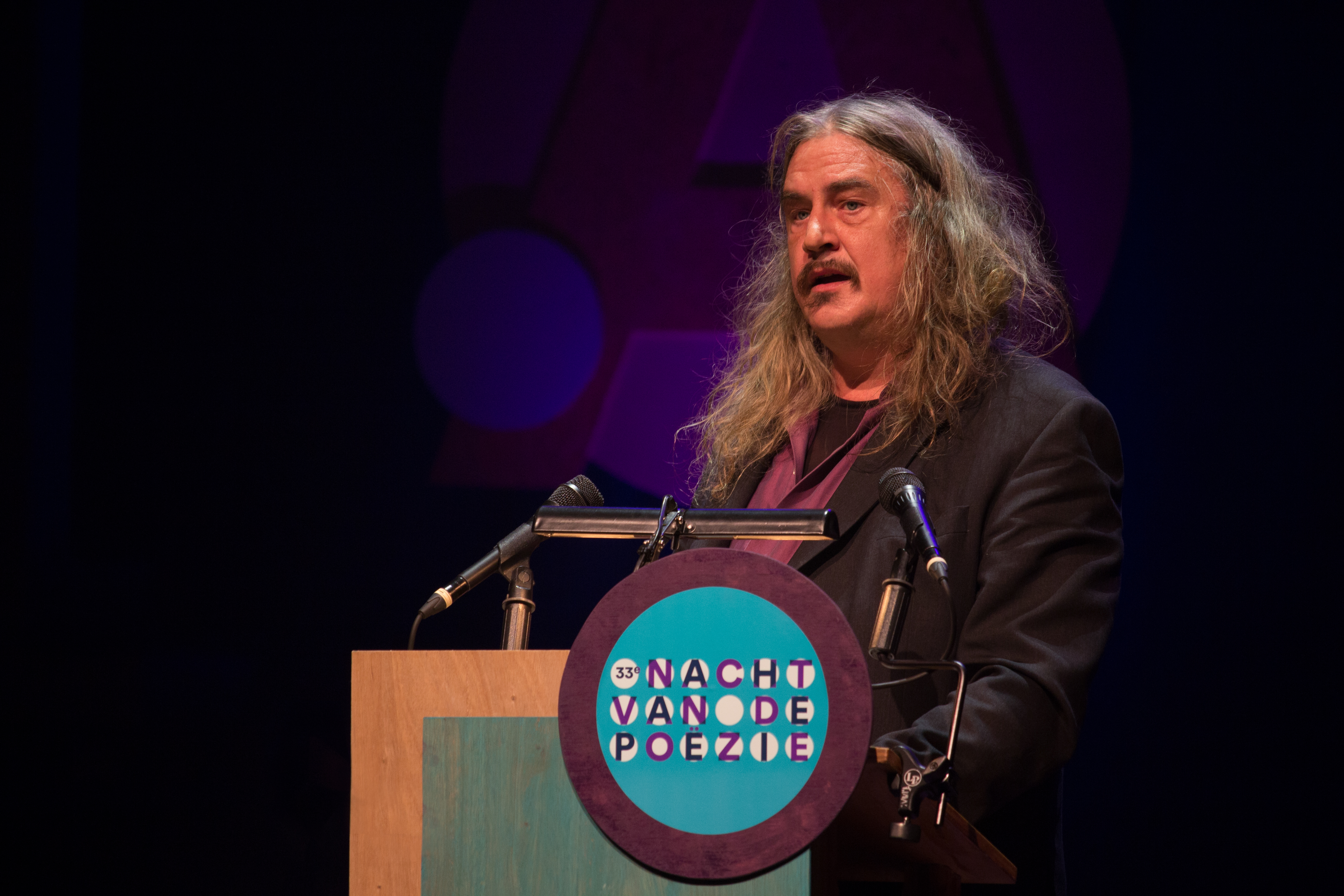 Ilja Leonard Pfeijffer speaking at the Night of Poetry